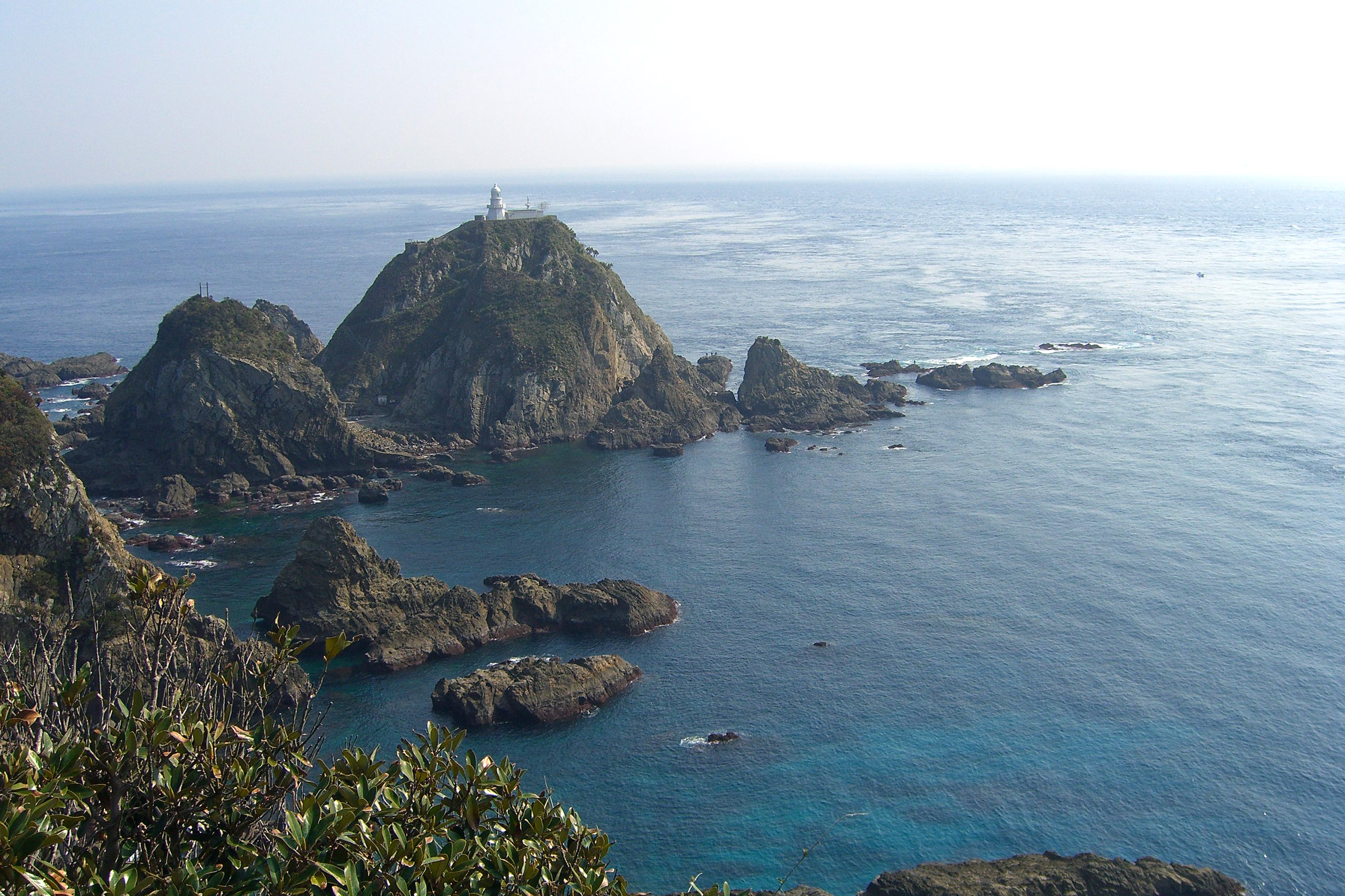 Satamisaki Park View